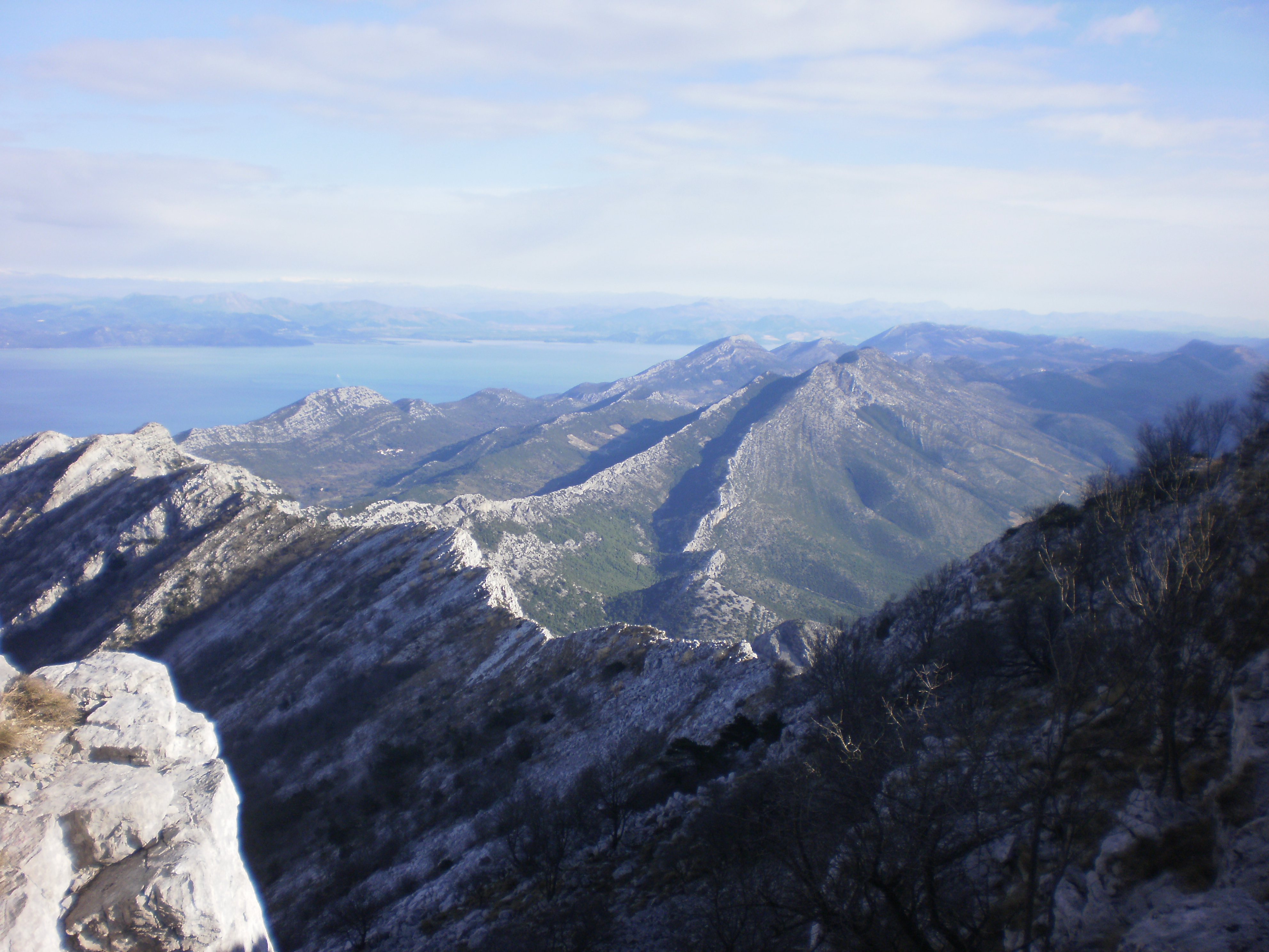 View on St. Ilija mount, Pelišac OLYMPUS DIGITAL CAMERA